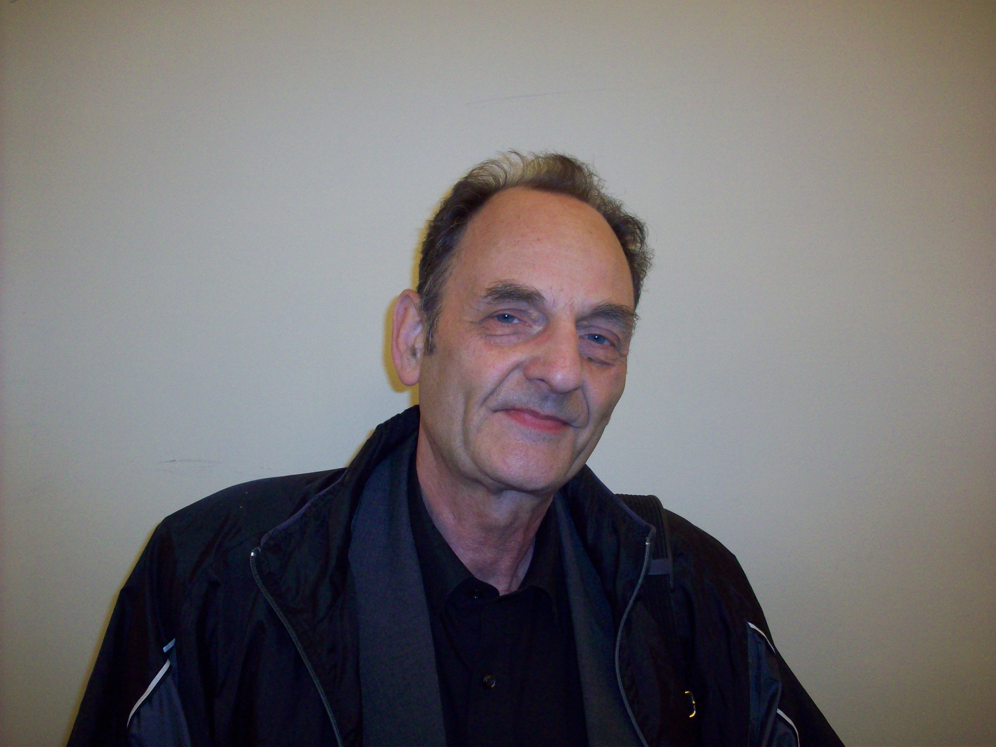 Famous German linguist and esperantist Detlev Blanke. Picture taken during World Esperanto Journalist meeting in Vilnius.